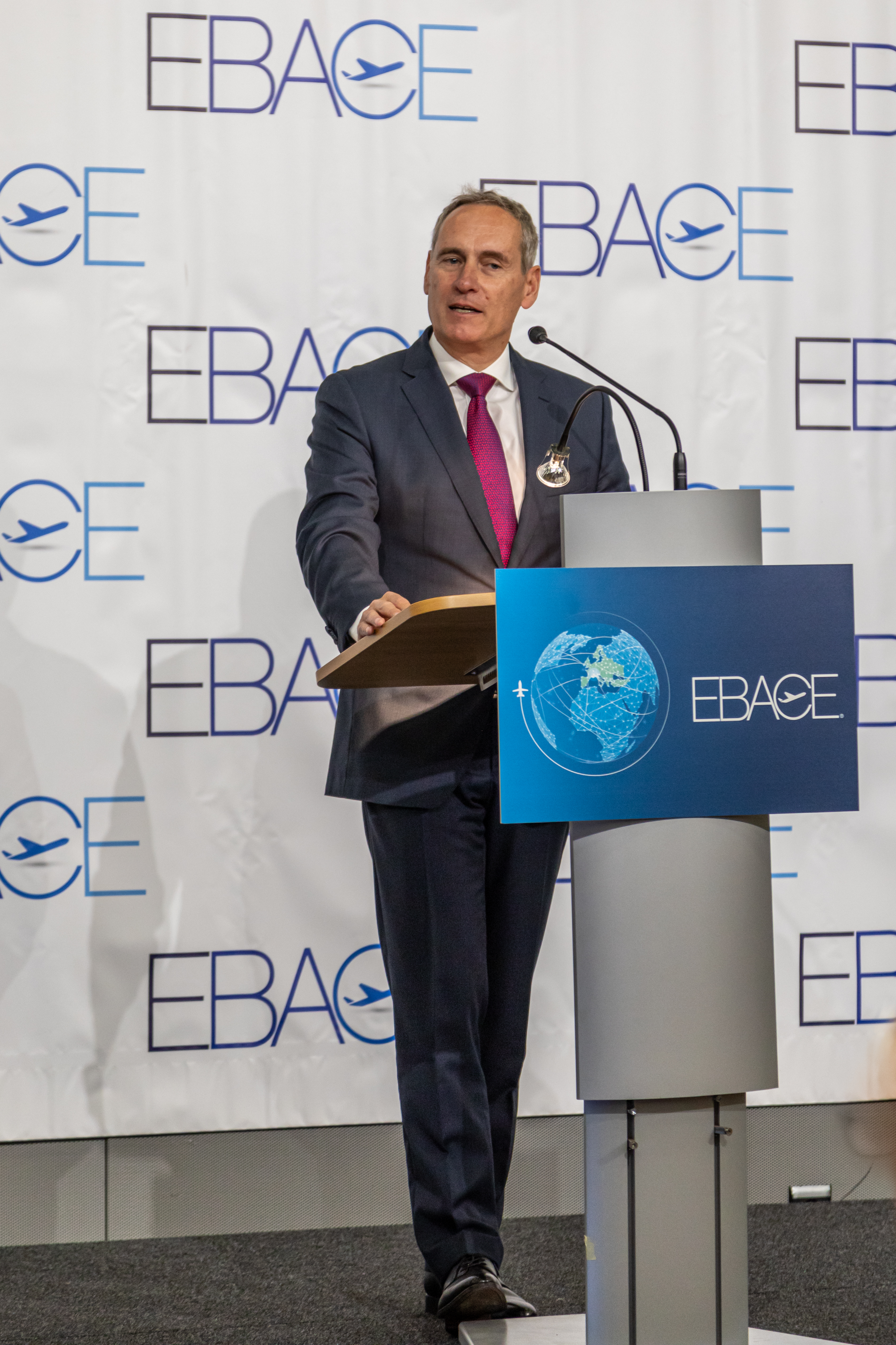 Jürgen Wiese at EBACE 2019, Palexpo, Switzerland